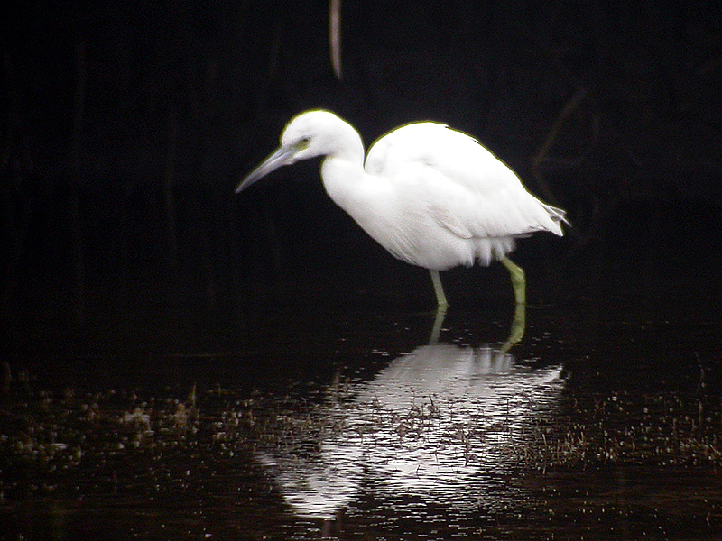 At first blush it looks like a Snowy Egret, but the bill and legs quickly give up the species. The juvenile Little Blue Heron (Egretta caerulea) is always white until April, when it starts to molt to that beautiful blue-gray. The gray bill is tipped in black and slightly decurved. Light green legs complete the picture. Might have been a good photo if the focus was on the bird rathe that the nicely broken reflection. Taken at Holiday Cove, Tarpon Springs, FL.